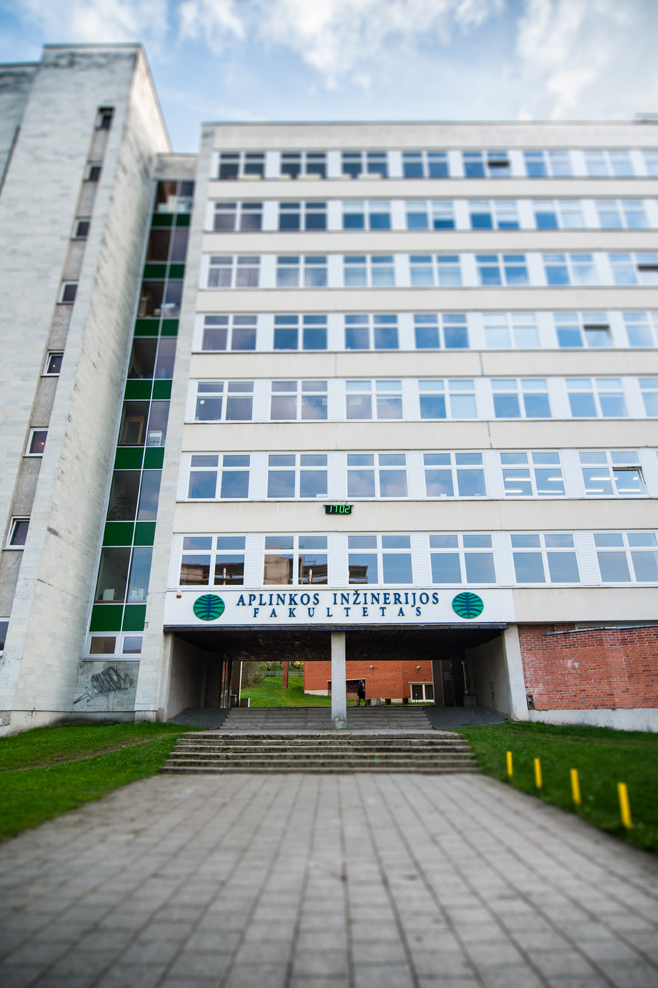 VGTU AIF